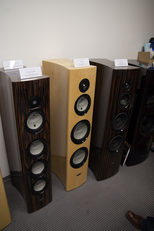 // Exhibits at HighEnd 2009 trade show, Munich, April 2009